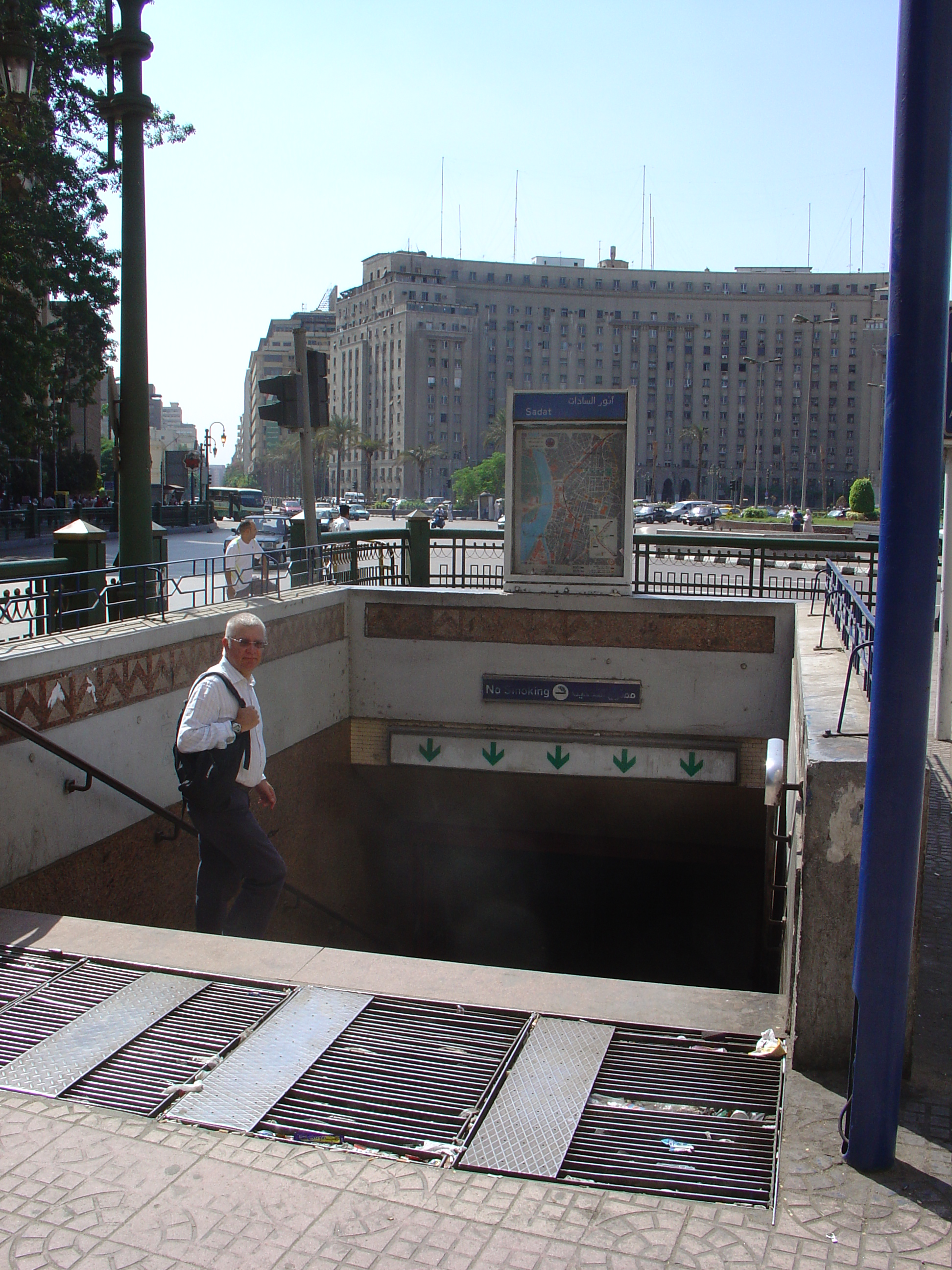 Entrance to the Sadat metro station entrance at Midan Tahrir in Cairo